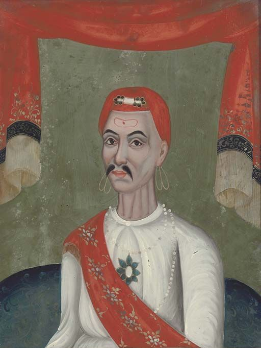 A REVERSE GLASS PAINTING OF THE EIGHTEENTH CENTURY MARATHA STATESMAN NANA PHADNAVIS, BY A BOMBAY ARTIST, EARLY 19TH CENTURY